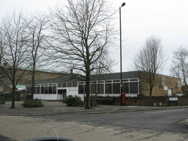 Bitterne Library, Southampton Off Bitterne Road East